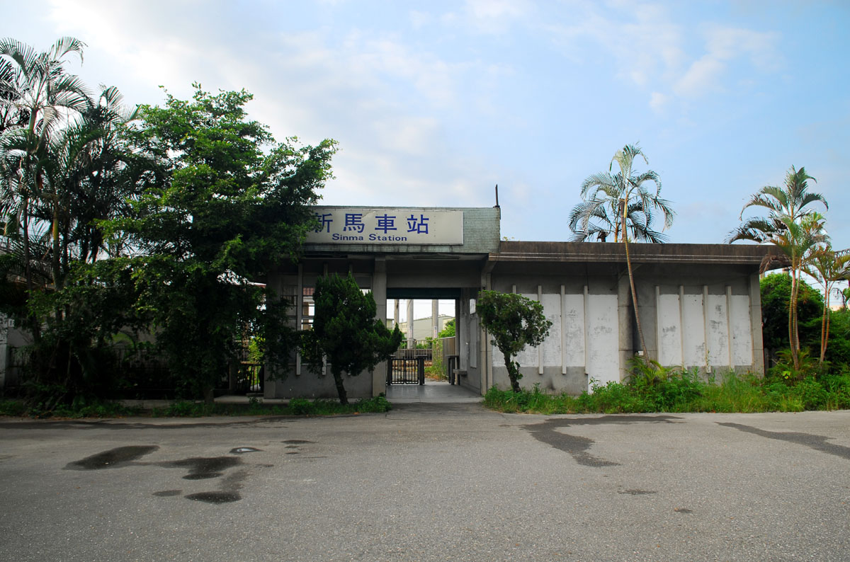 Sinma Station is a small local train station of Yilan Line, part of Taiwan's eastern rail line. It's located within the boundary of Suao Town and currently operated as a staffless station.